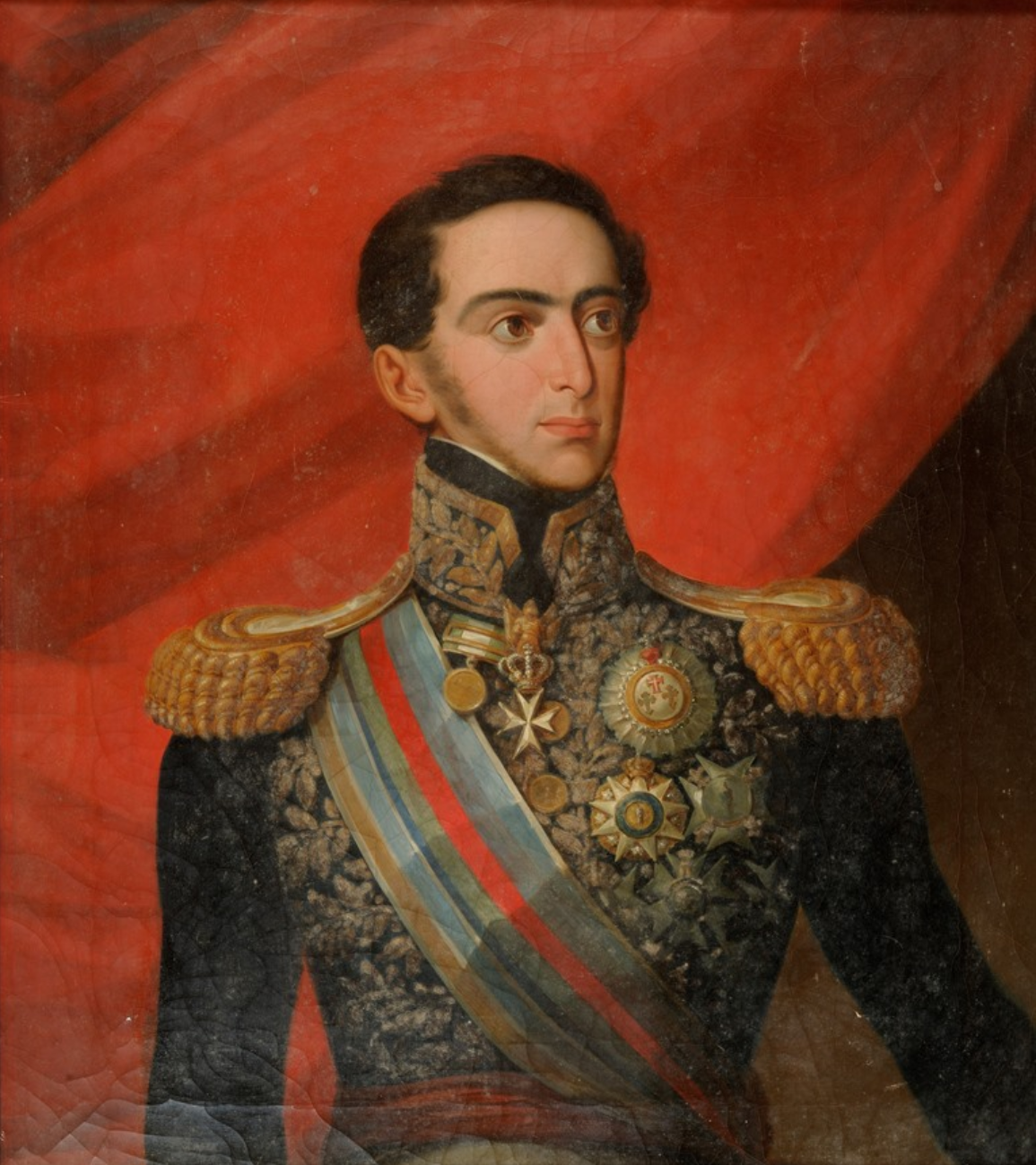 D. Miguel of Braganza, King of Portugal.